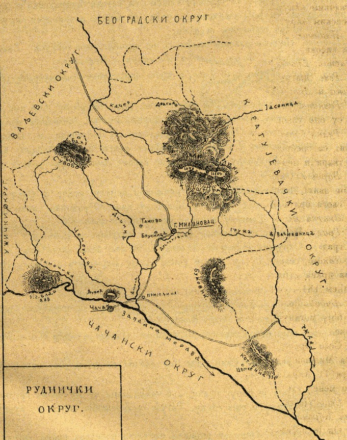 Districts of Serbia 1900